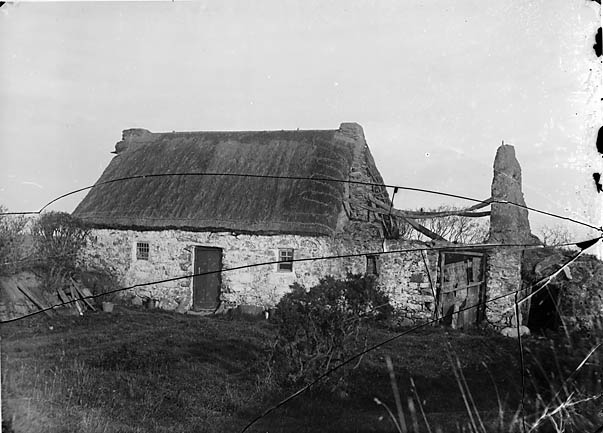 1 negative : glass, dry plate, b&w